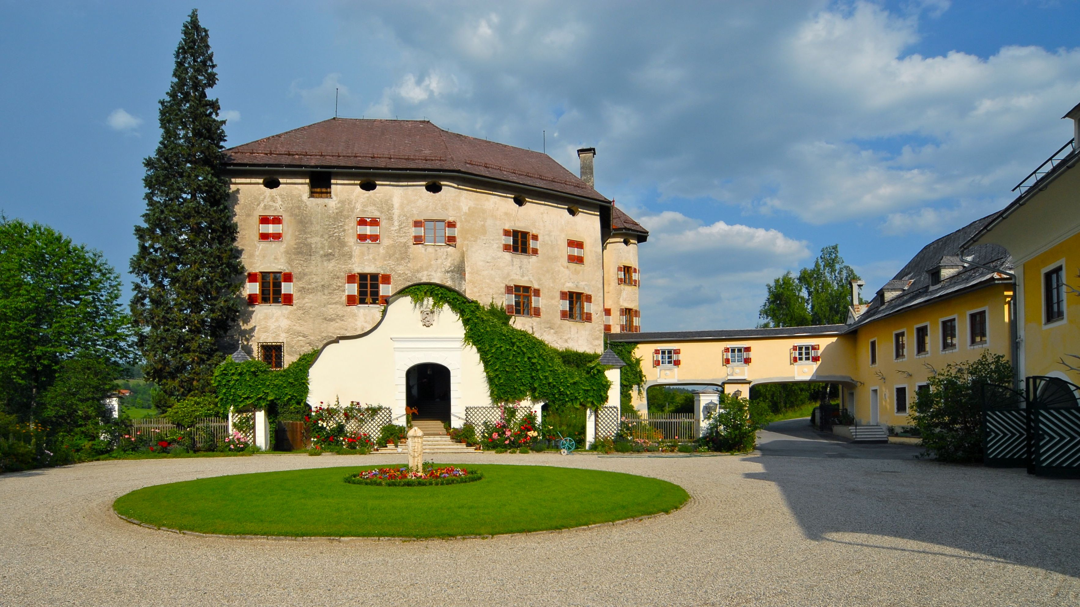 Castle Biberstein in Himmelberg, first mentioned in 1396, municipality Himmelberg, district Feldkirchen, Carinthia / Austria / EU